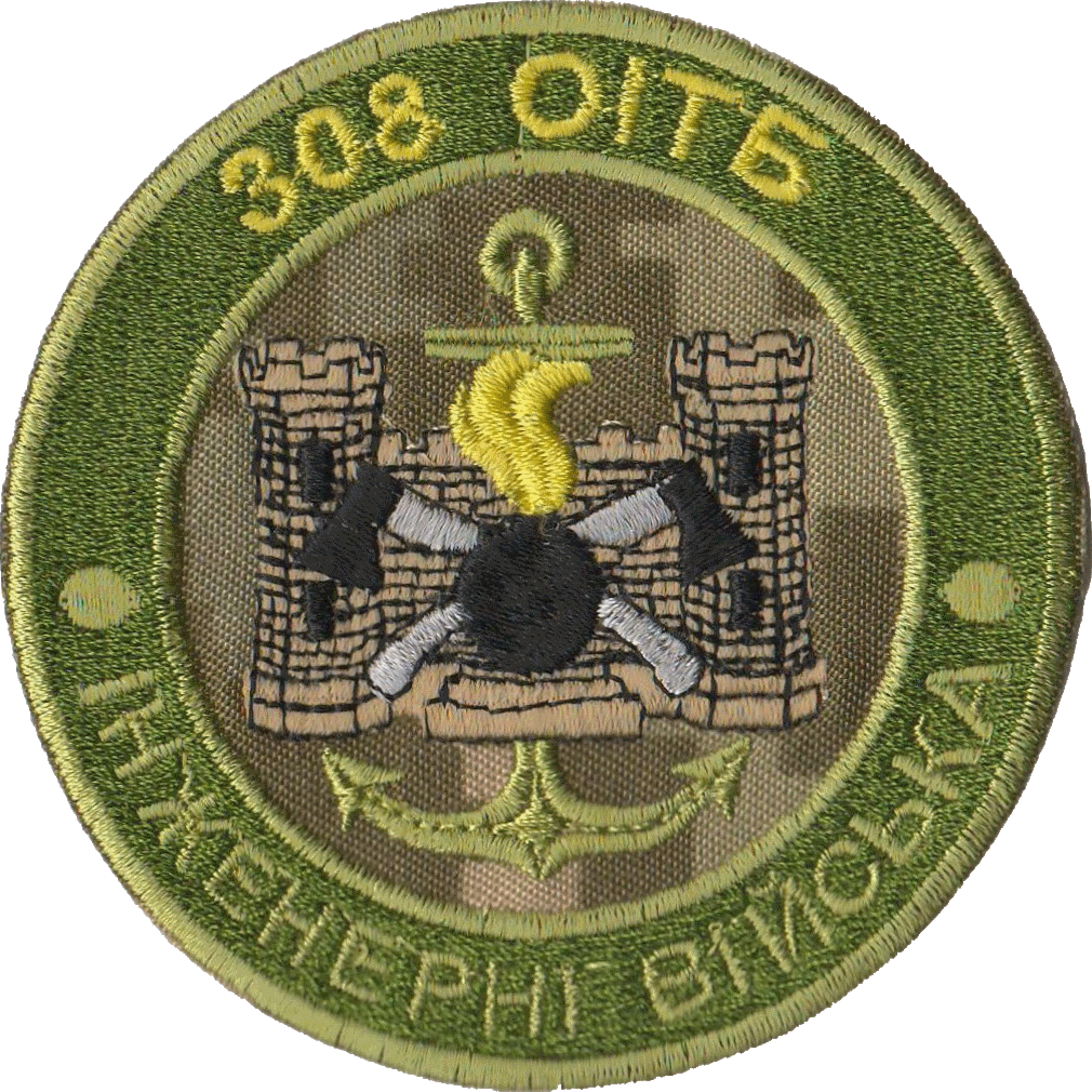 Shoulder Sleeve Insignia of 308th Engineer Battalion, Uknaine